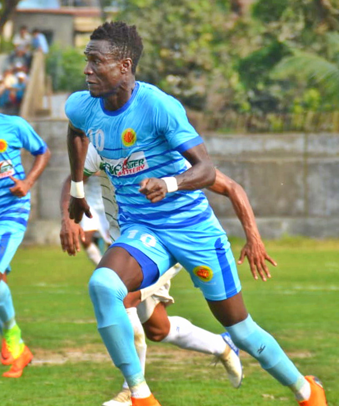 Momodou Bah in a league match for Chittagong Abahani